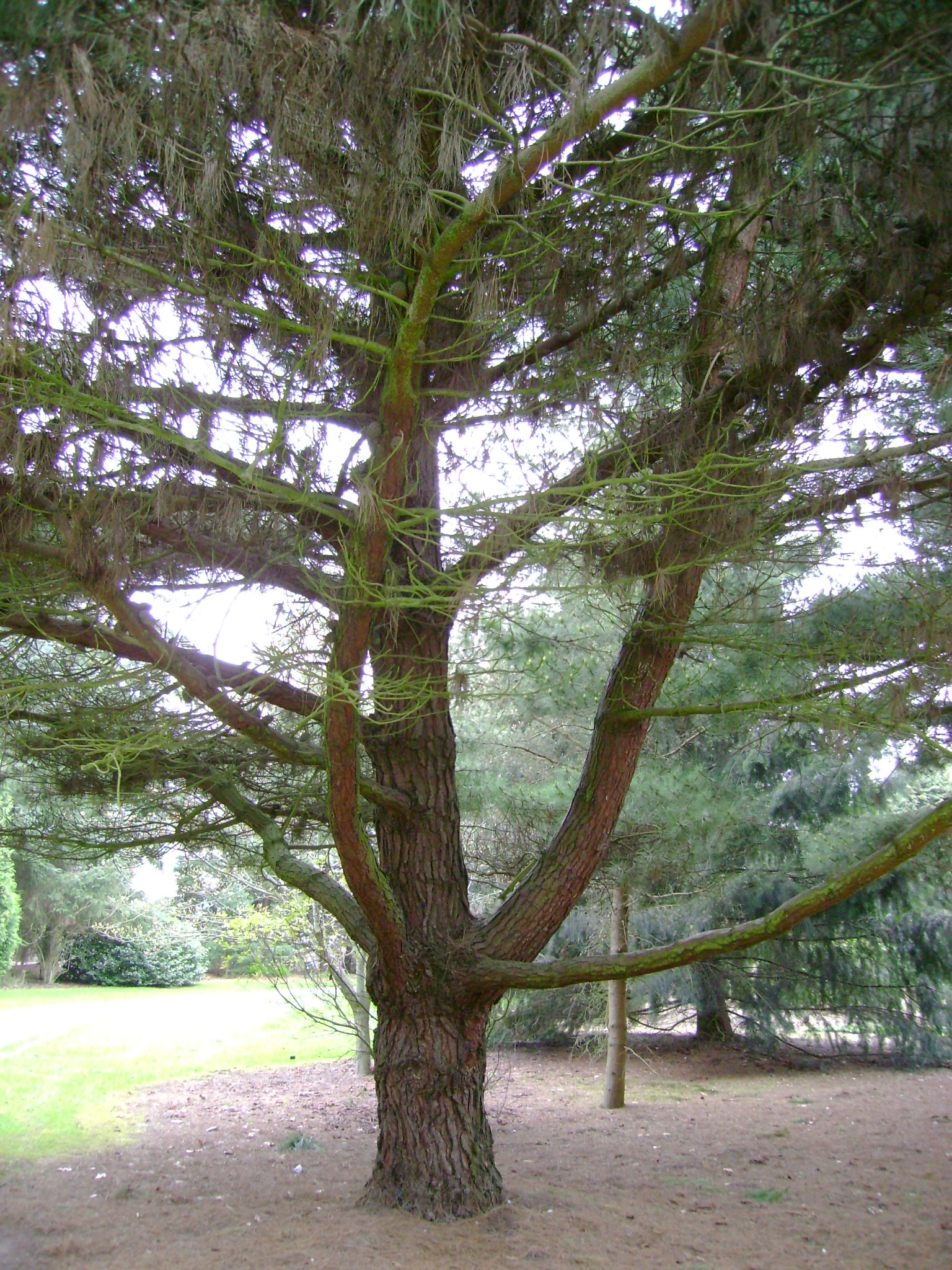 Pinus muricata at the Dundee Botanic Garden